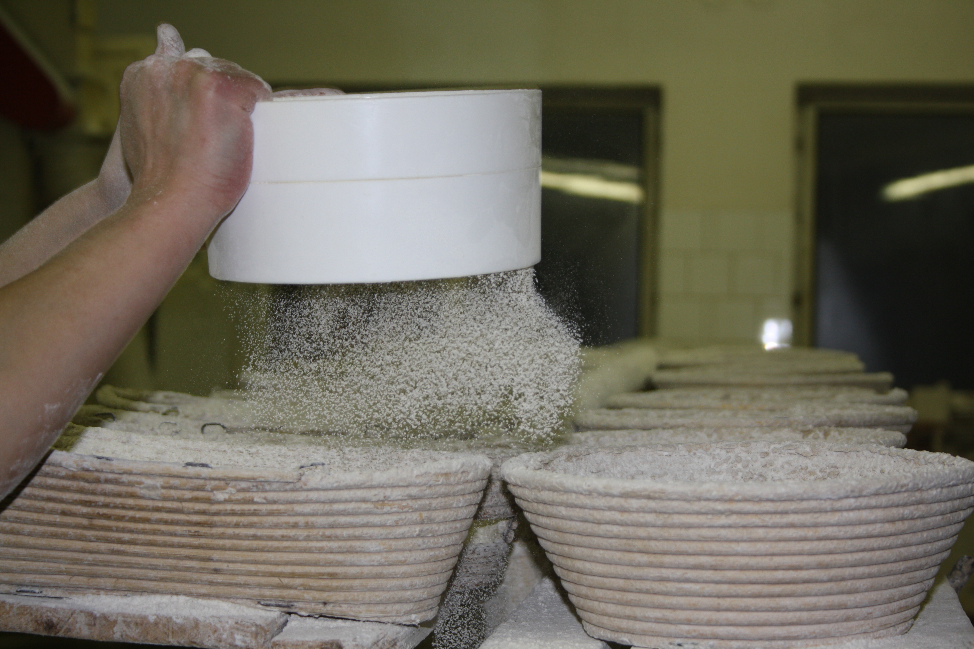 Production process of bread, Czech Republic This photograph was taken with a DSLR from WMCZ's Camera grant. This picture was taken and/or got within the scope of the 'Acquiring scientific and specialized pictures' grant.